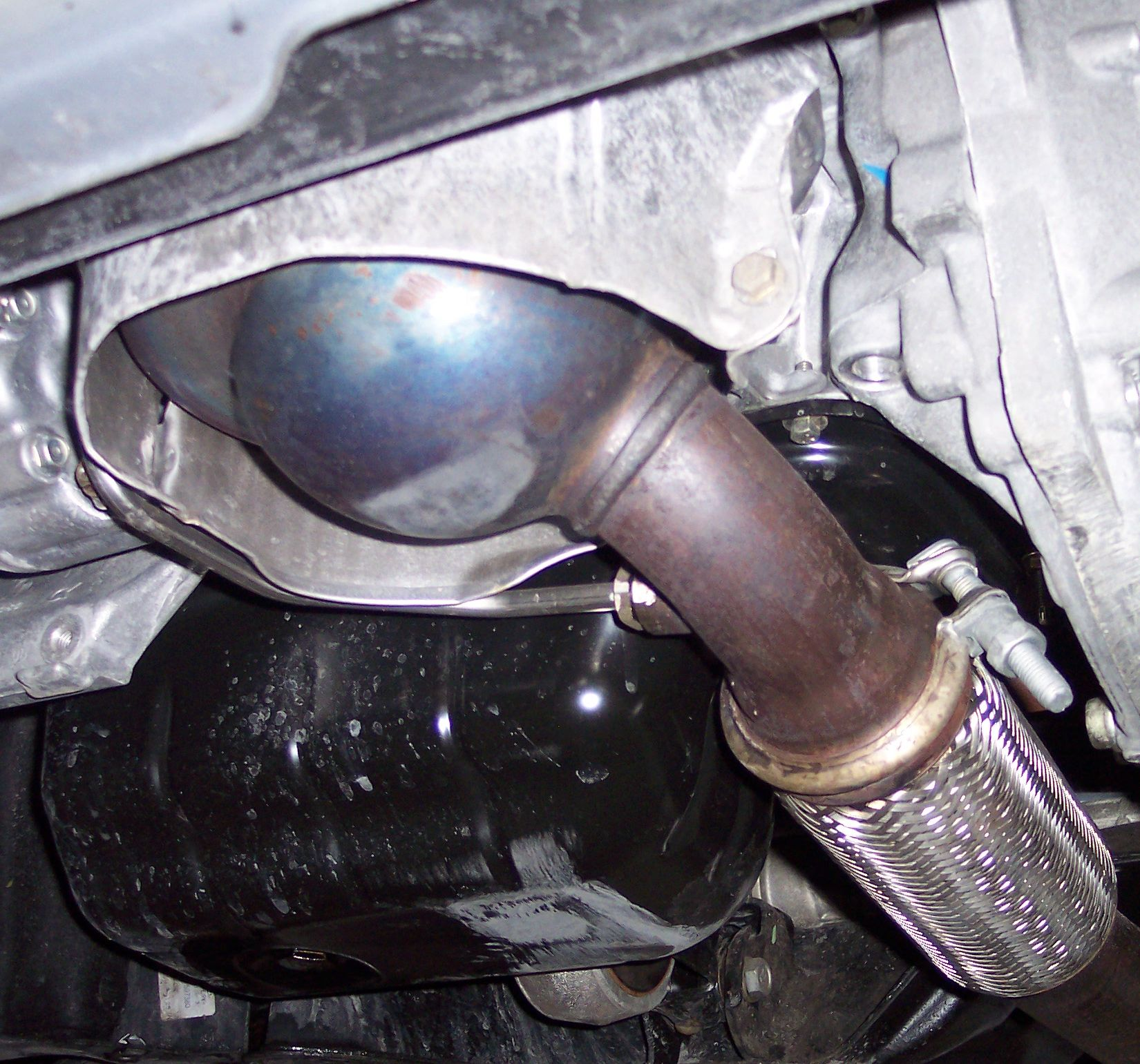 Diesel Particulate Filter (DPF) built in the exhaust pipe of a Peugeot)